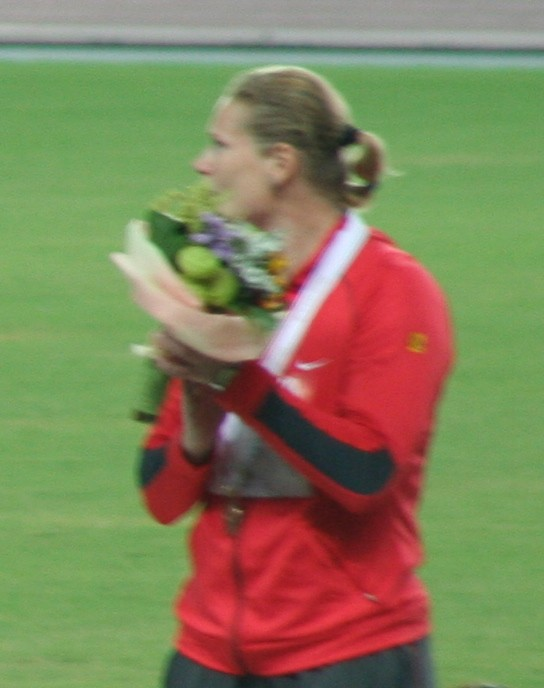 World Athletics Championships 2007 in Osaka - Nadine Kleinert at the Victory Ceremony for the Women's Shot Put